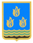 Coat of arms of Baku